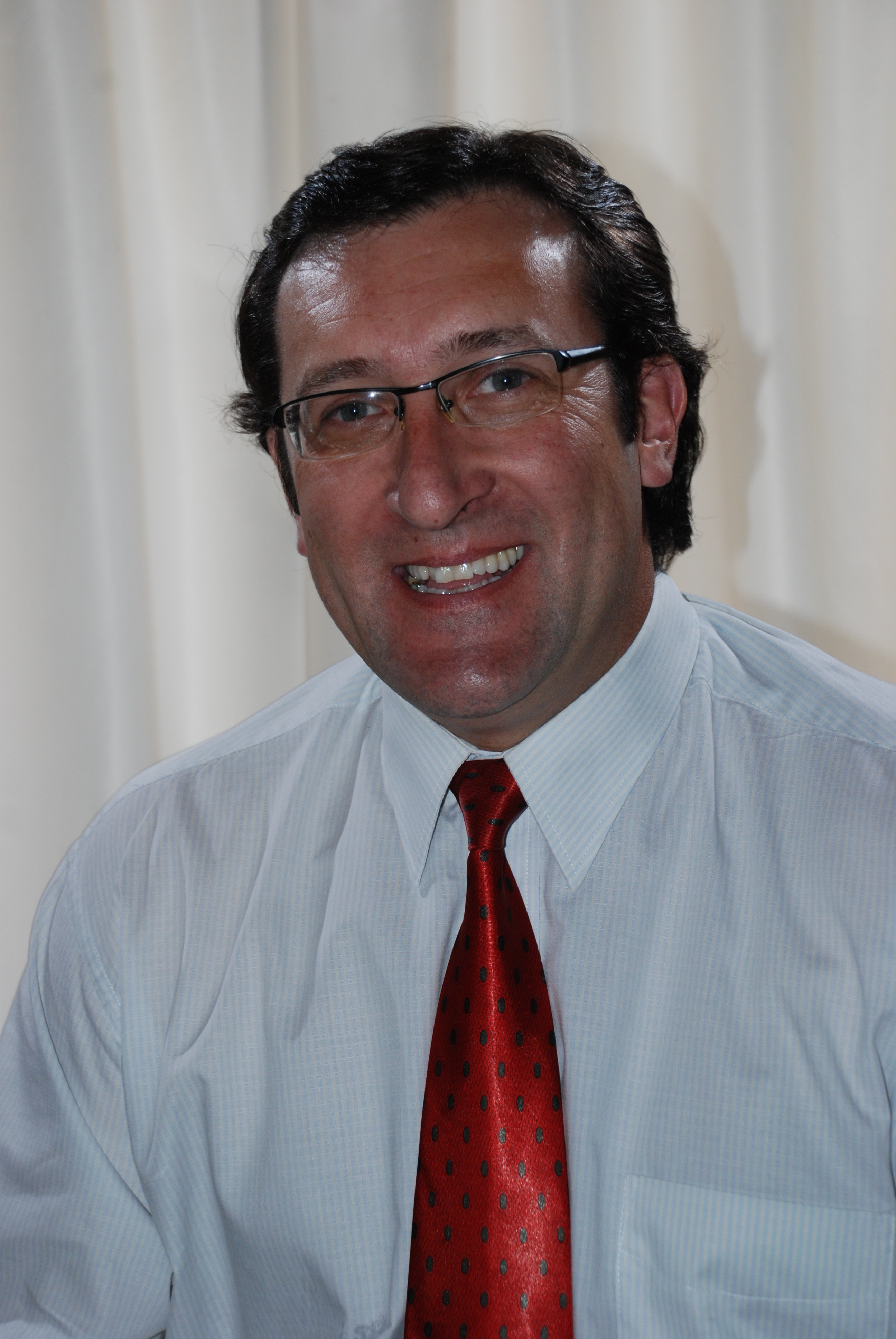 Foto de campaña elecciones nacionales dd 2009